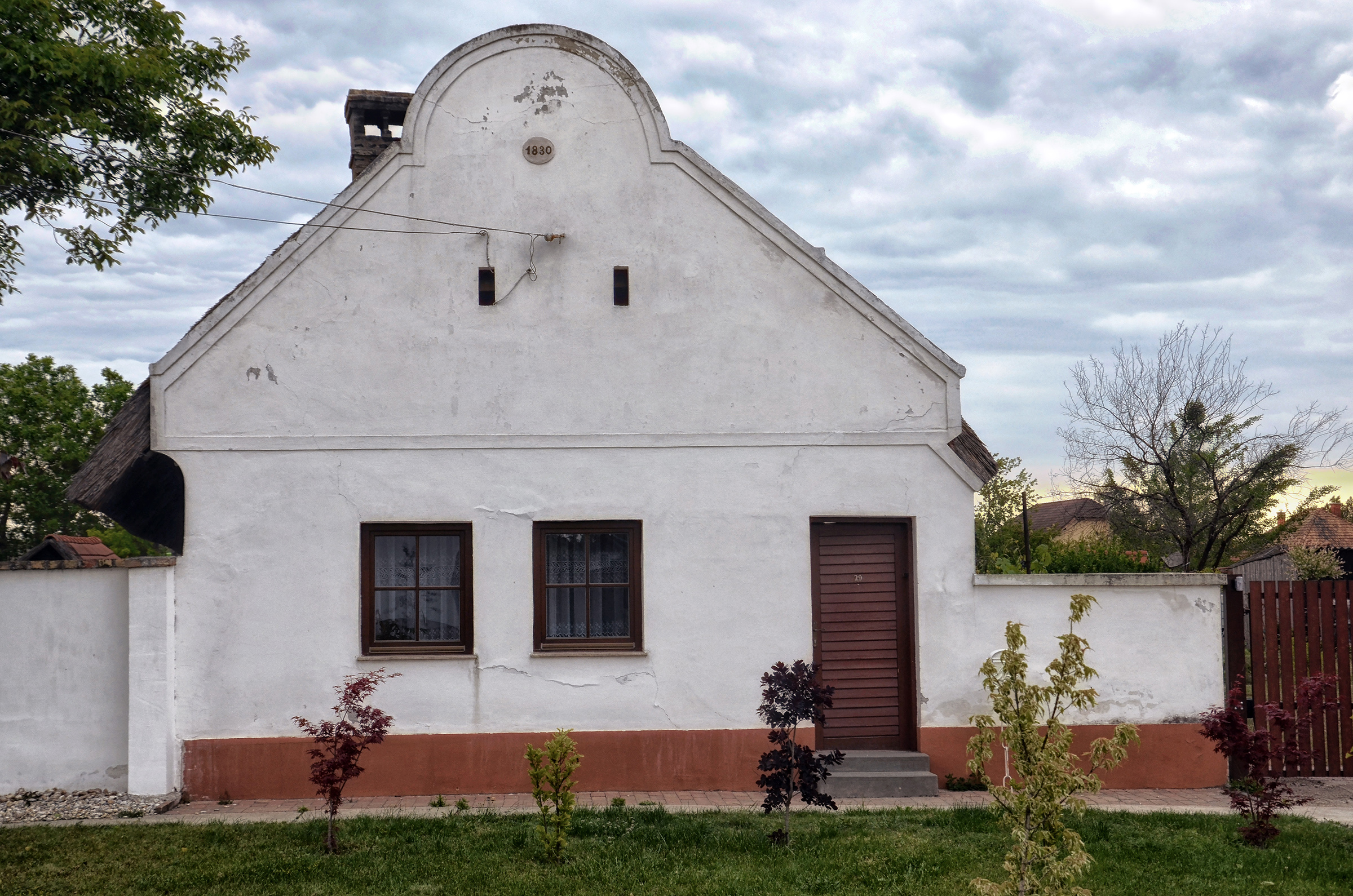 Vernacular dwelling-house in Abda